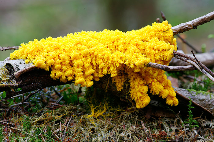 Fuligo septica in Estonia.